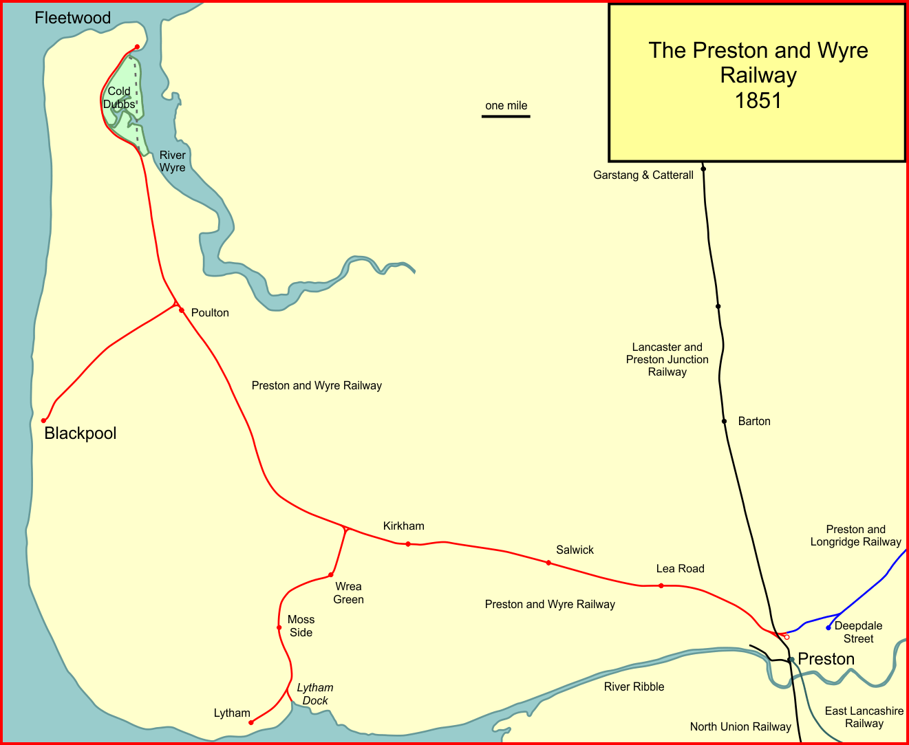 System map of the Preston and Wyre Railway, Lancashire, England, in 1851